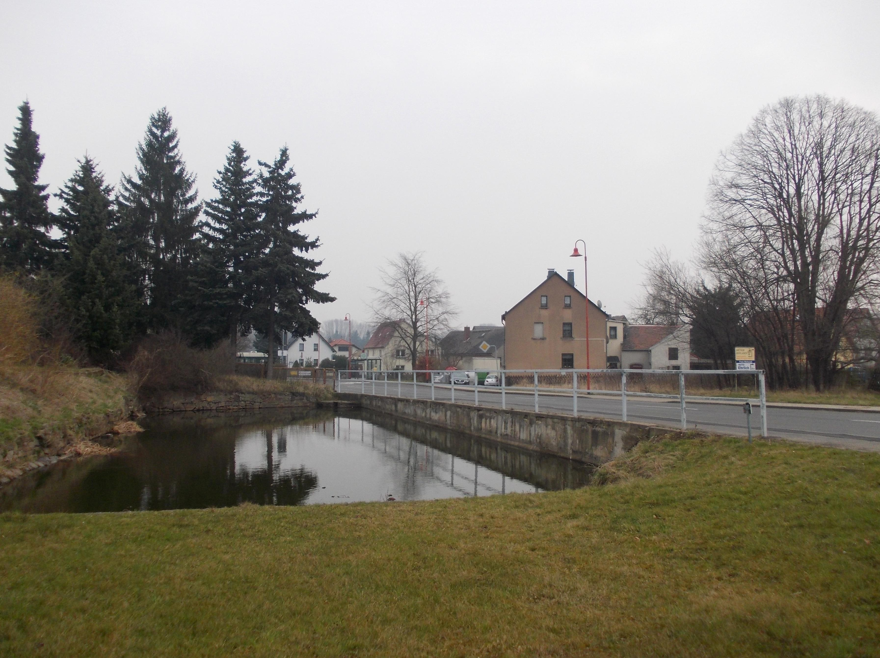 Pond in Neunitz (Grimma, Leipzig district, Saxony)